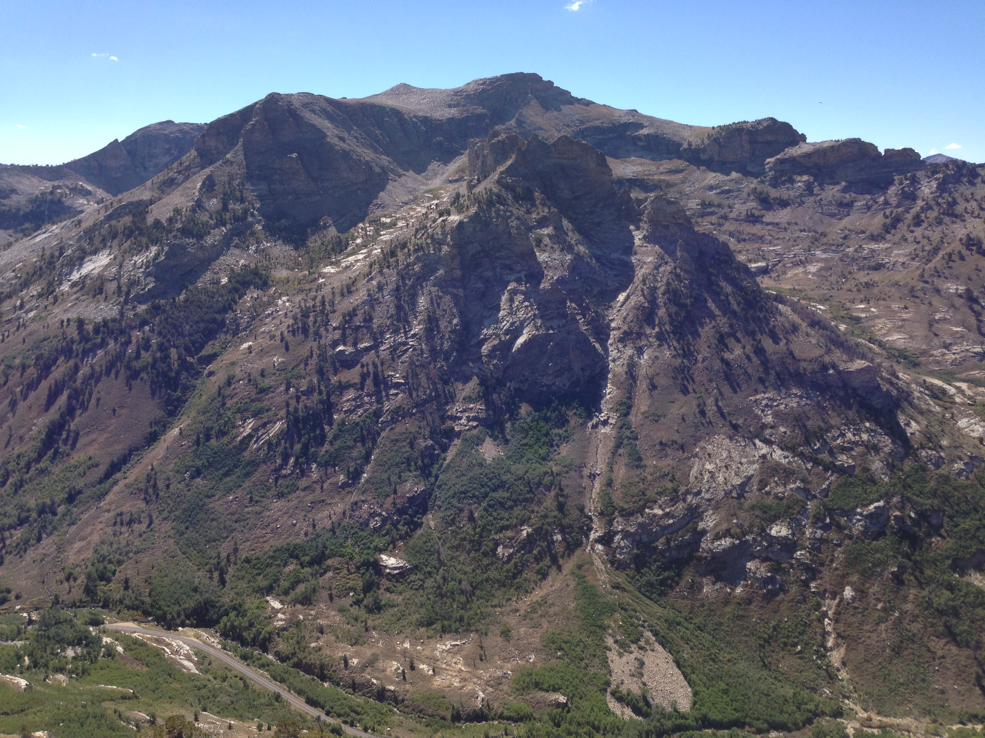 View southwest from 9980 feet while descending from Verdi Peaks back to Terraces Picnic Area on the afternoon of September 9th 2013